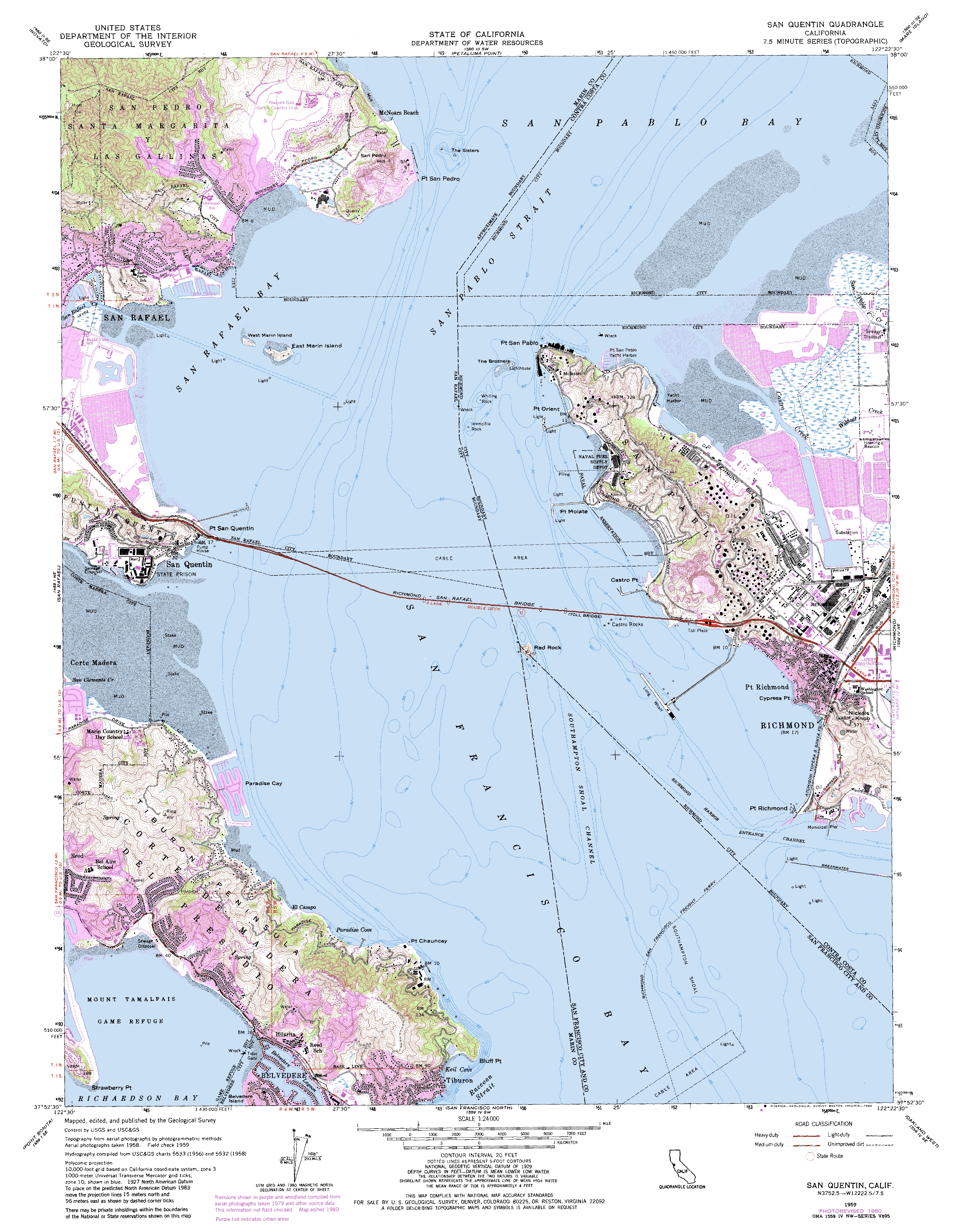 San Quentin 7.5 minute Quadrangle N3752.5 - W12222.5 USGS Topo